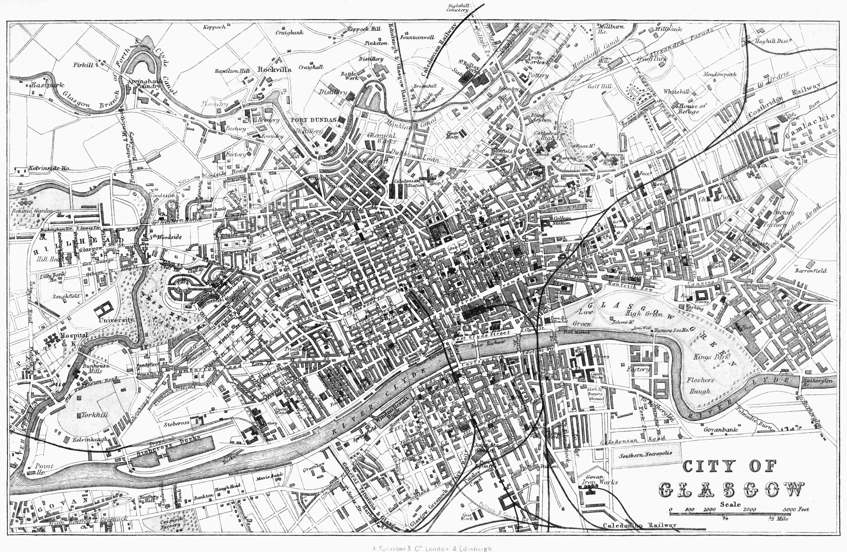 Glasgow map from The Illustrated Globe Encyclopaedia of Universal Information